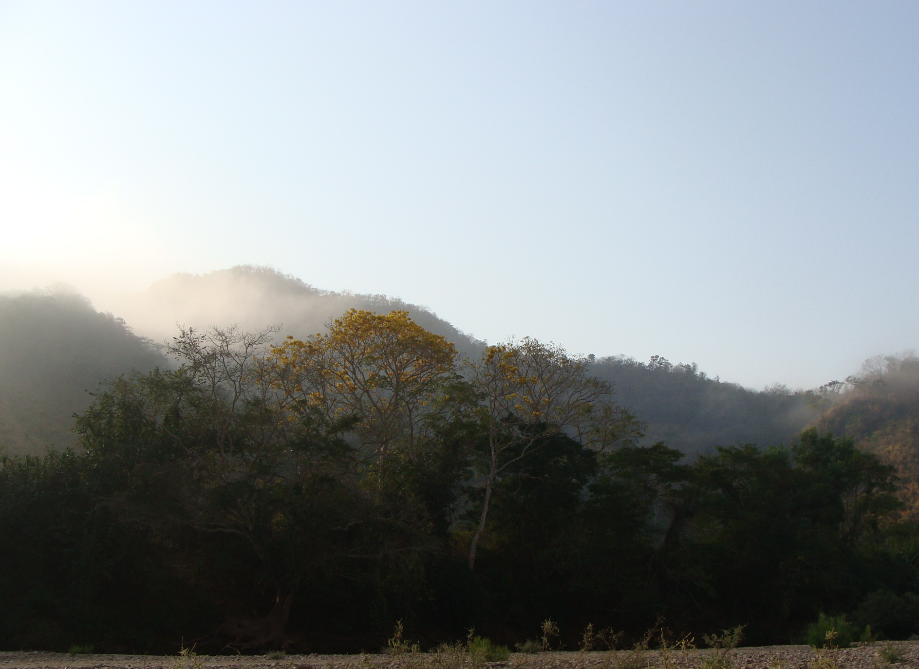 Riparian forest bordering the Cuixmala river — Chamela-Cuixmala Biosphere Reserve in Jalisco. A Ramsar wetlands in Mexico of international importance.